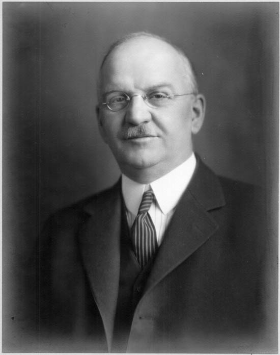 Howard Ferguson Source: Archives of Ontario Date: [ca. 1930] Creator: Photographer unknown. George S. Henry family papers.